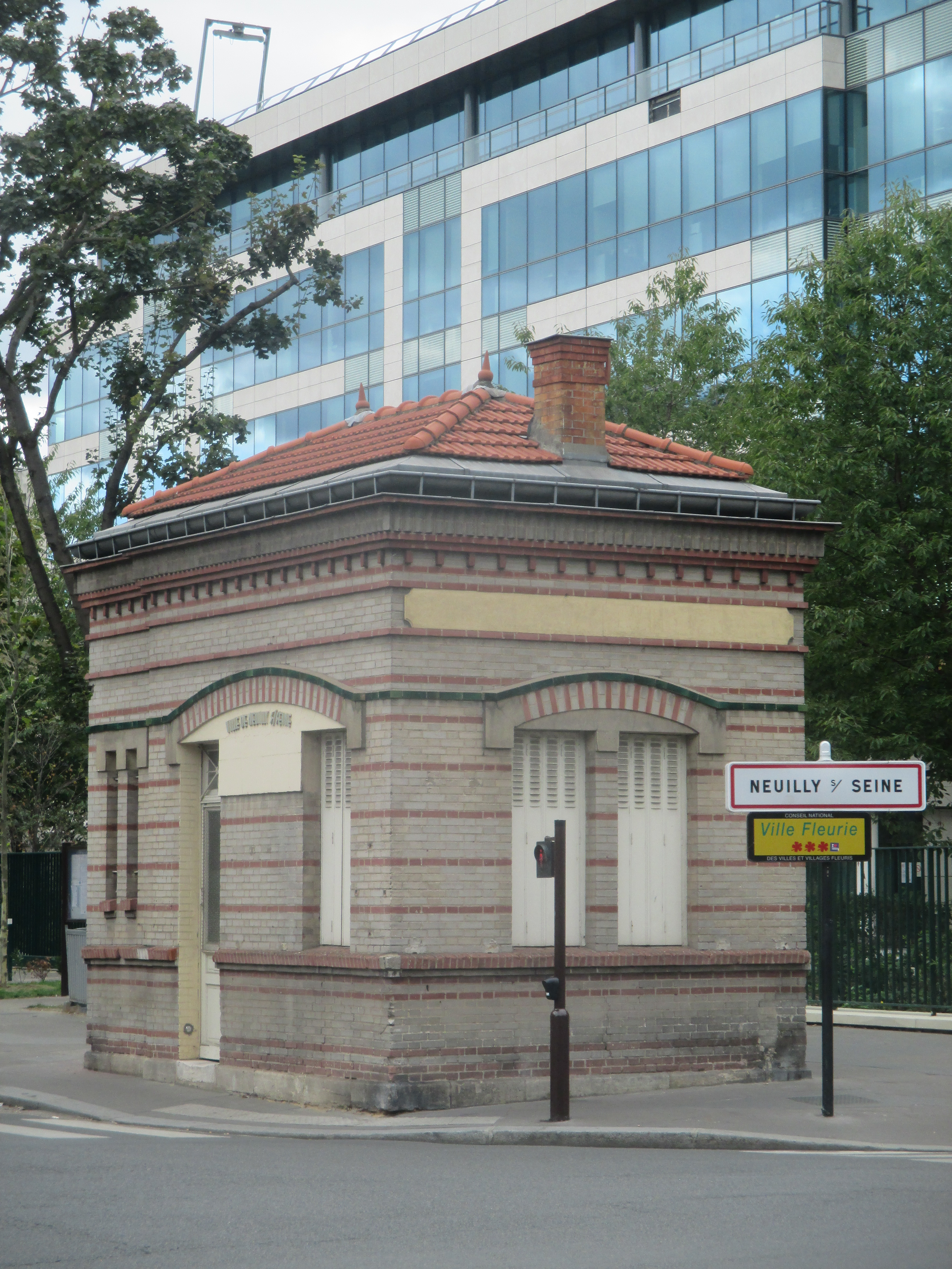 Former octroi at the limit of Levallois and Neuilly, at the end of Boulevard du Château. One of the Octroi buildings (a collecting-booth for taxes on goods, former local tax station). Octroi de Neuilly, Boulevard du Château and Rue de Villiers, Neuilly-sur-Seine, France. A similar Octroi de Neuilly, is at Rue Parmentier at Carrefour Bineau, Neuilly-sur-Seine, France. An imperial decree of 1870 authorizes the establishment of six offices in Neuilly, some already existing and others being considered: the Marshal Juin bridge, the Neuilly bridge, the Porte des Ternes, the Neuilly gate, the corner of rue Parmentier and boulevard Bineau, and finally the Central Office located at 121, avenue de Neuilly.